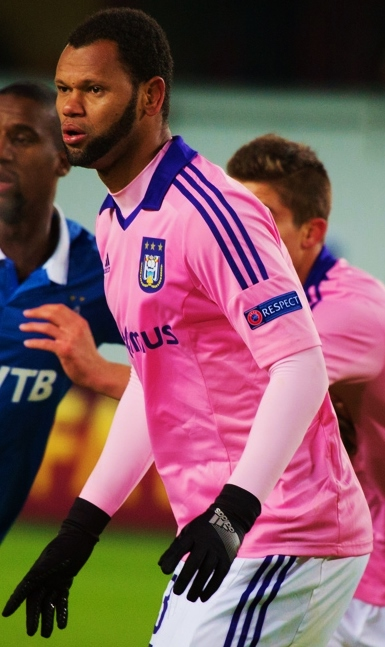 Rolando